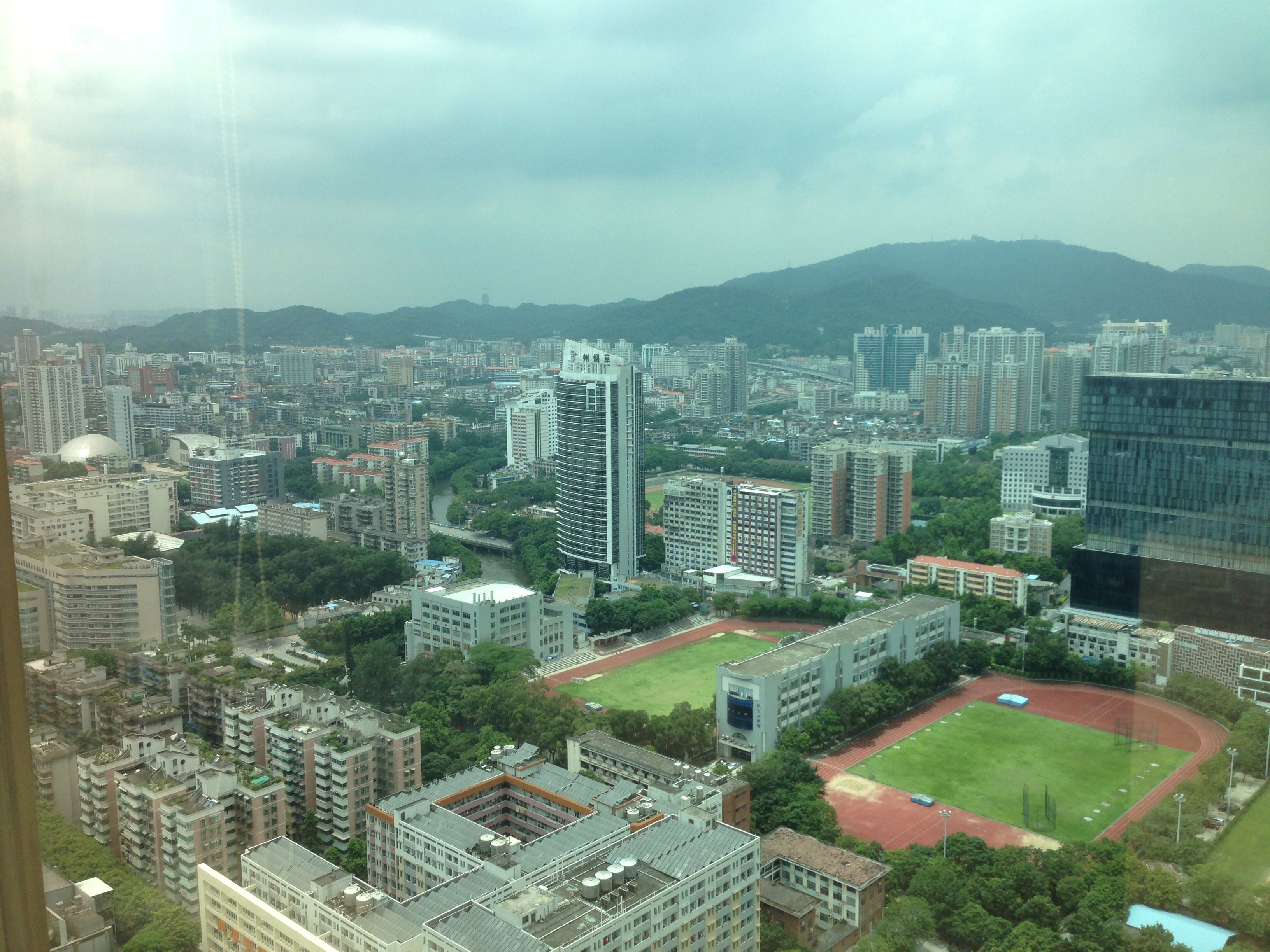 Skyline of Lam Wo, Tinho, Canton. The tallest building in the middle is Canton Tobacco Mansion. Fields and dormitories in the foreground are Canton Sport University. Photo taken probably from Metropolitan Plaza. 粵語: 天河林和一帶。中間至高嗰棟係廣州煙草大廈。底下嘅操場同宿舍係廣州體育學院。張相估計係喺大都會廣場樓上影嘅。